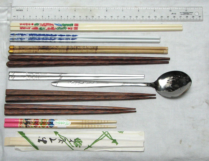 From top to bottom: Plastic chopsticks from Taiwan, porcelain chopsticks from mainland China, bamboo chopsticks from Tibet, palmwood chopsticks from Indonesia (Vietnamese style), stainless flat chopsticks from Korea (plus a matching spoon), a Japanese couple's set (two pairs), Japanese child's chopsticks, and disposable "waribashi" (in wrapper)